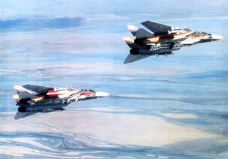 Iran Air Force Grumman F-14A Tomcat fighters armed with multiple missiles: the right-hand aircraft is carrying four AIM-54 Phoenix, two AIM-7 Sparrow and two AIM-9 Sidewinder. The left-hand aircraft carries four Sparrows, two Sidewinders and a single Phoenix. The missile carried on the right ouboard plyon seems to be an MIM-23 Hawk missile. The photo was therefore probably taken in 1986, when the IRIAF carried out the "Project Sky Hawk" test program to check if it's possible to arm Tomcats with the Hawk missile.